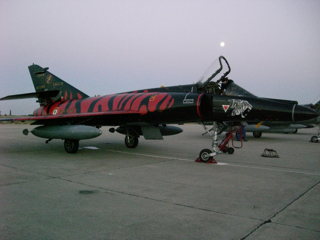 The French Navy 11F's Dassault Super-Étendard number 71 with Nato Tiger Meet spécial color scheme